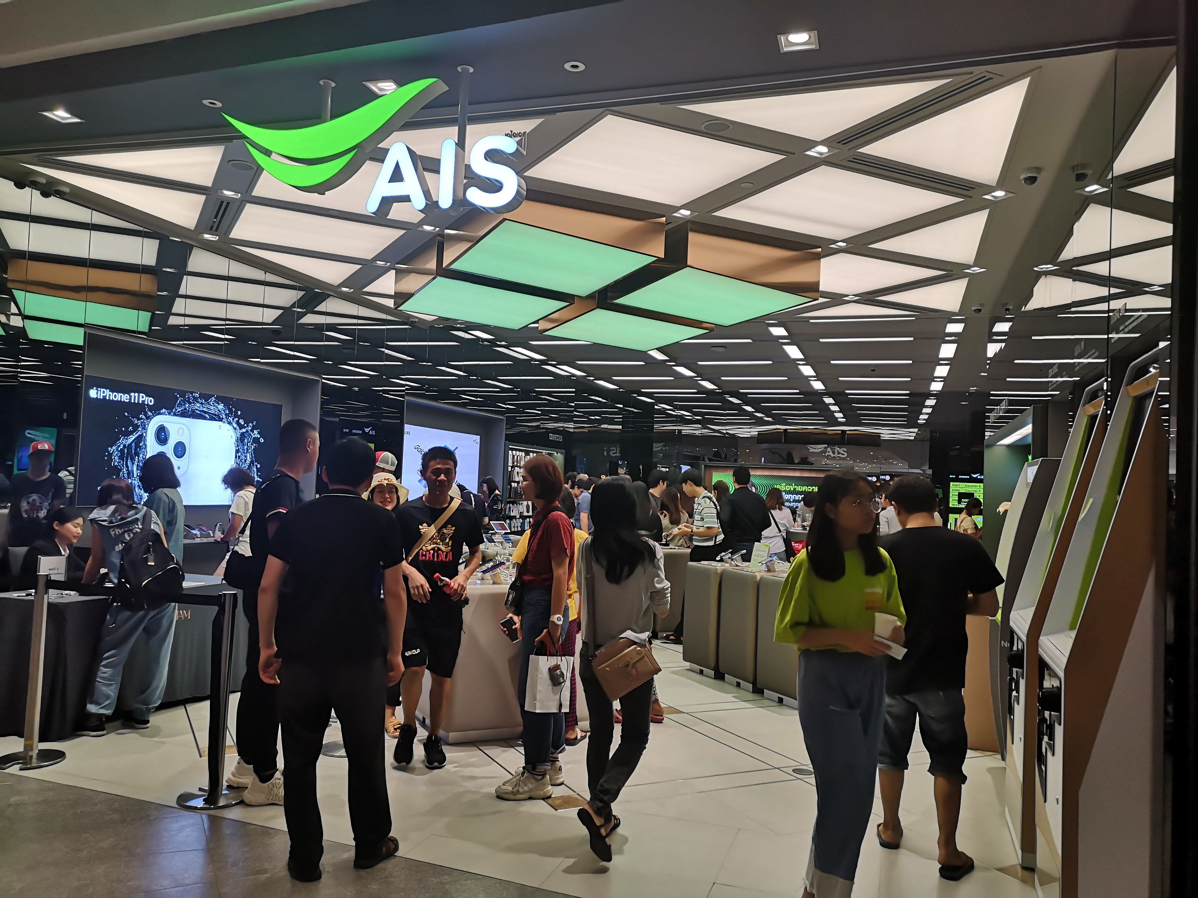 AIS shop at Icon Siam